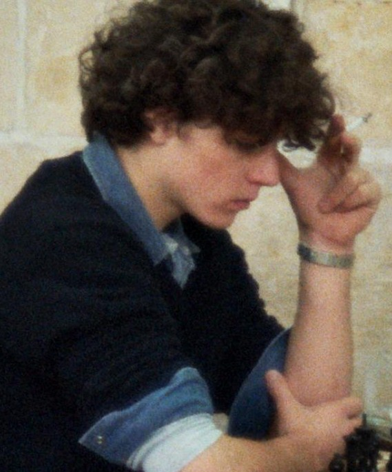 Eric Lobron at the Chess Olympiad 1980 in Malta, Photographer Gerhard Hund.